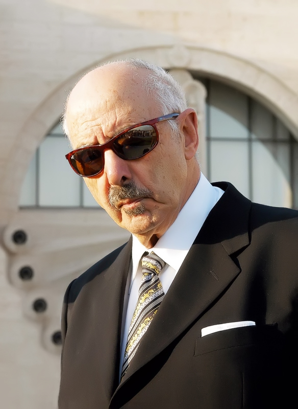 A photo of Mr. Cafesjian at the Cafesjian Center for the Arts opening in Yerevan, Armenia